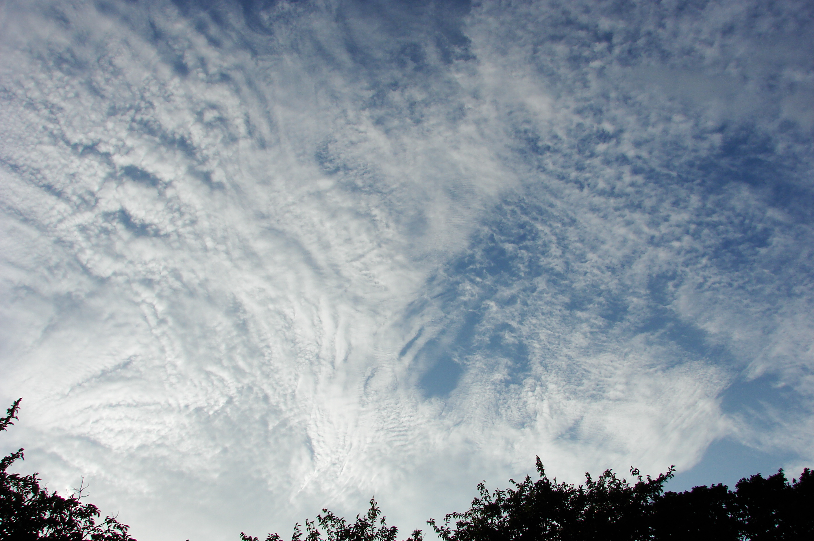 Cirrocumulus stratiformis undulatus clouds with also lacunosus variety on the right, above North Texas.